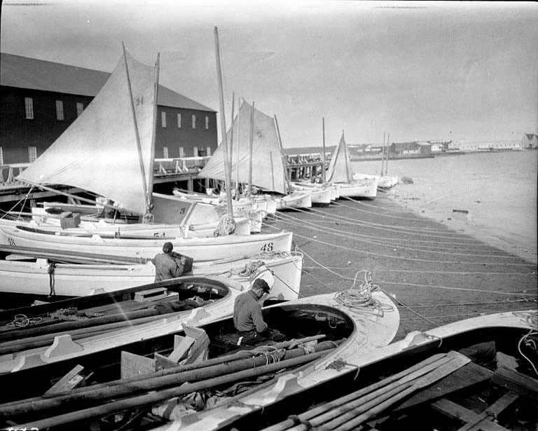 From John Cobb field notebook: Fishing boats on beach at P.H.J. 1917 Subjects (LCTGM): Fishing boats--Alaska--Nushagak; Canneries--Alaska--Nushagak; Beaches--Alaska--Nushagak Subjects (LCSH): Salmon industry--Alaska--Nushagak